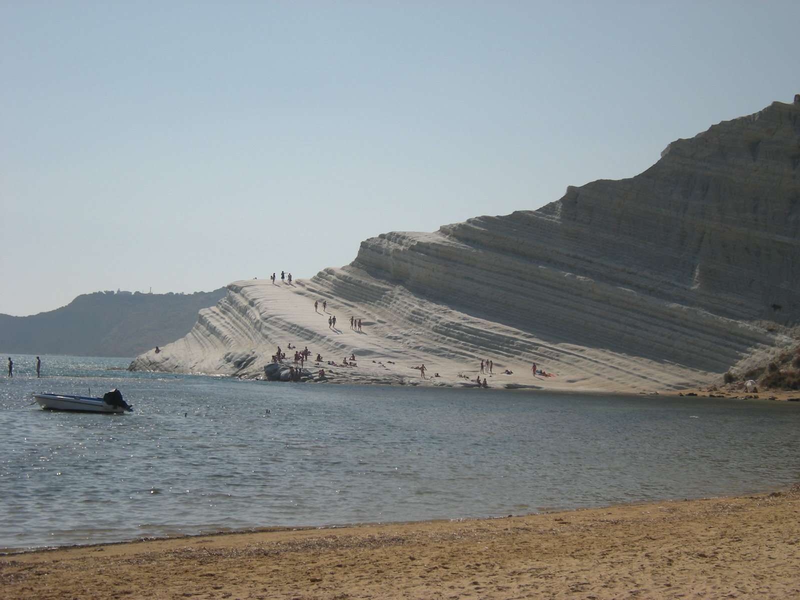 Panorama of Scala dei Turchi, Realmonte (province of Agrigento), Sicily, Italy